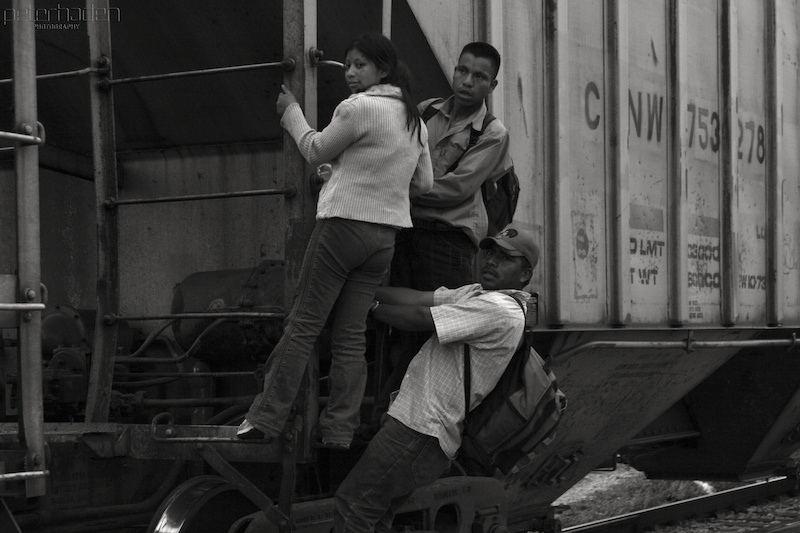 Central American migrants find quarter in southern Mexico. The majority of the migrants starting out on the route are young men. But there are women and children, too. Mexico's National Migration Service (INM) estimated that one in 12 people on the route are under 18, some making the journey alone. This photo was taken on July 14, 2008 in De Los Doctores, Ixtepec, Oaxaca, Mexico.